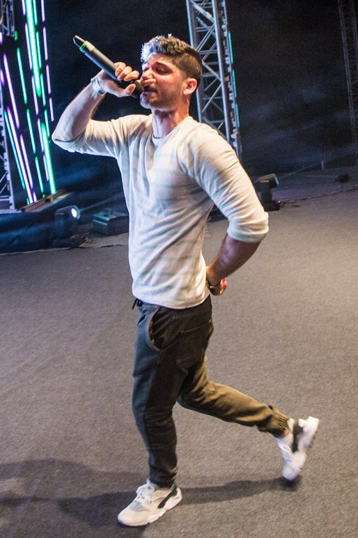 KRSNA or KR$NA in 2016 Born Krishna Kaul